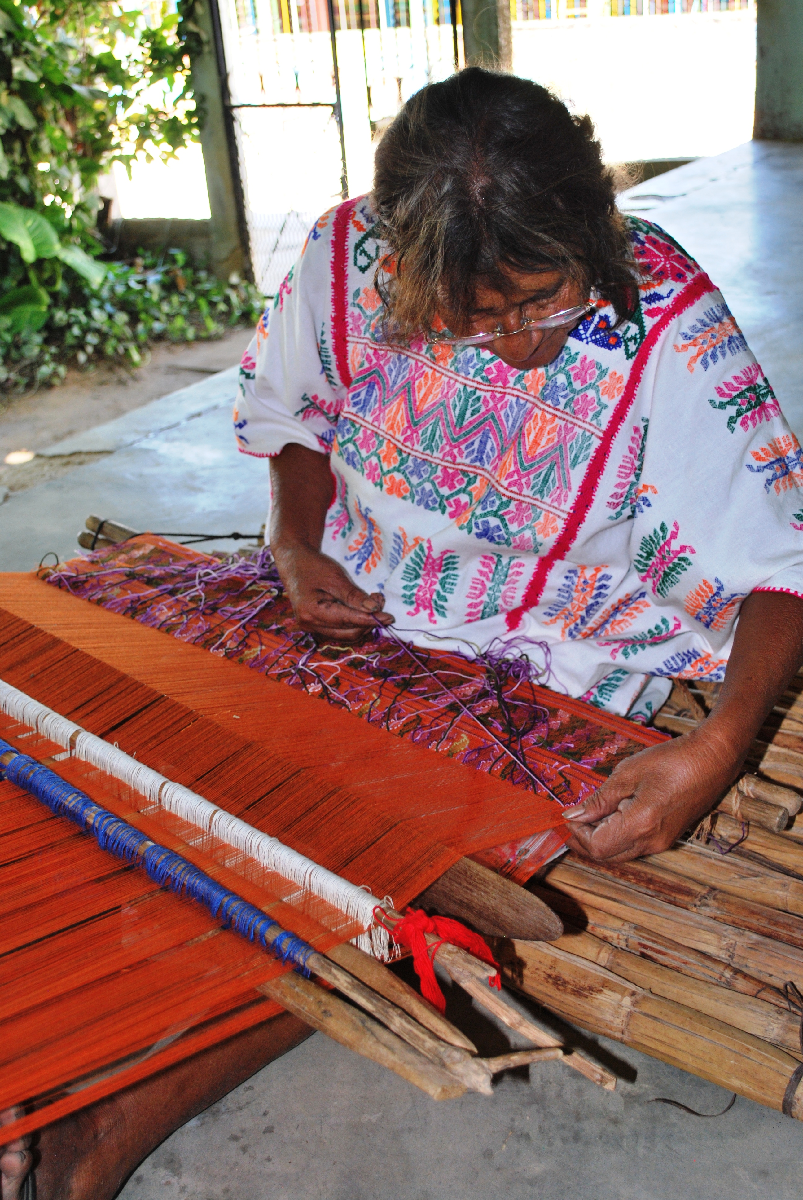 Amuzgo woman weaving rebozo in Xochistlahuaca, Guerrero